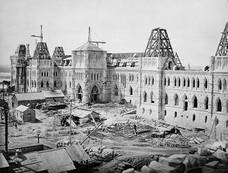 View of the central building and the entrance tower, parliament buildings